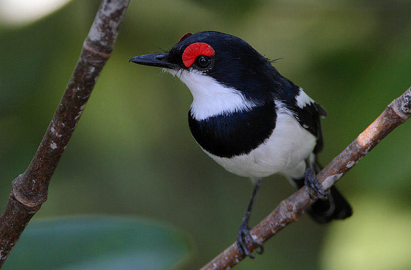 Image taken at Makasutu, The Gambia (in mangrove forest). A small hyperactive bird of Gallery and Mangrove forest.